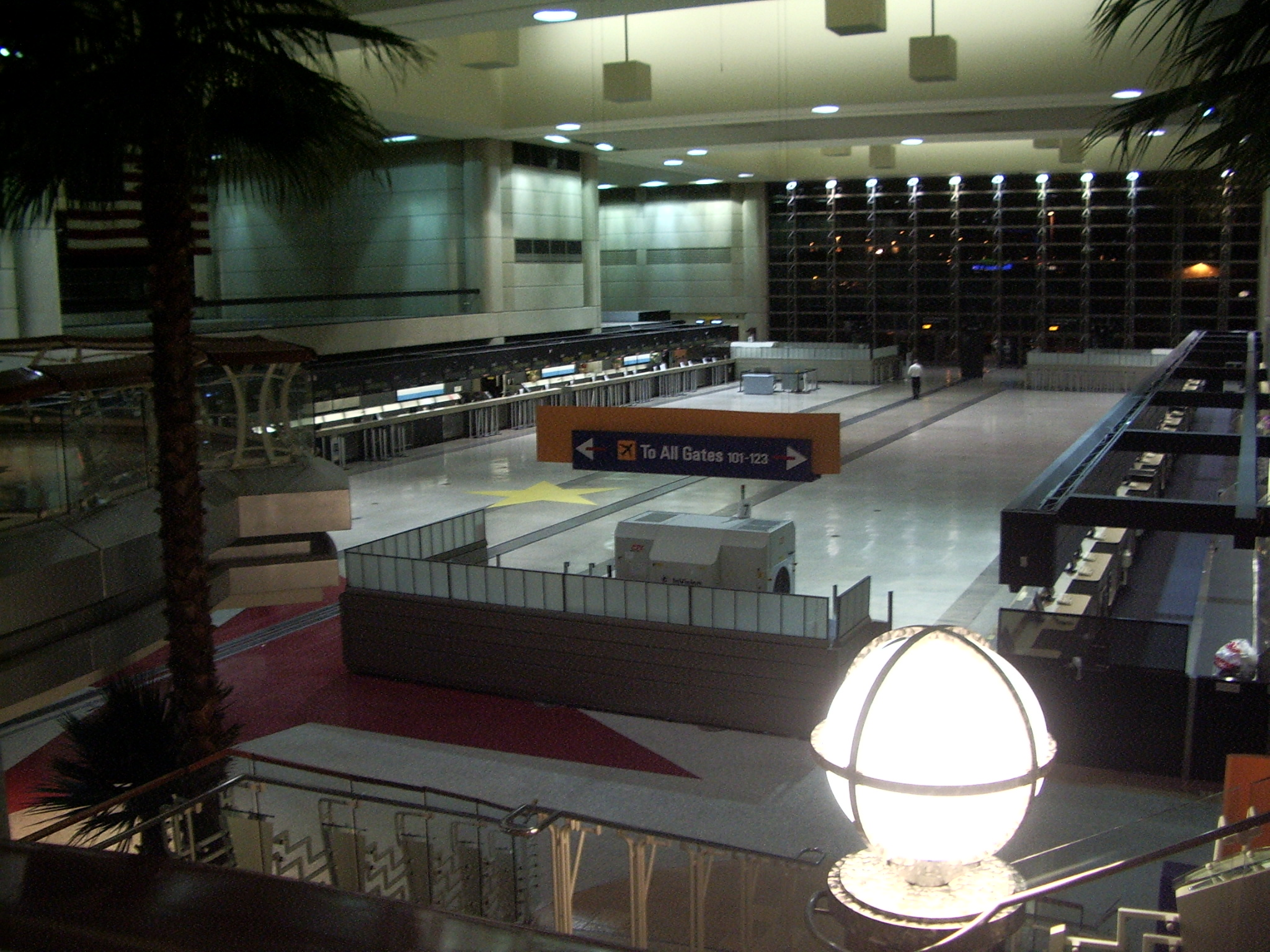 Interior of Tom Bradley International Terminal in early morning, Los Angeles International Airport.